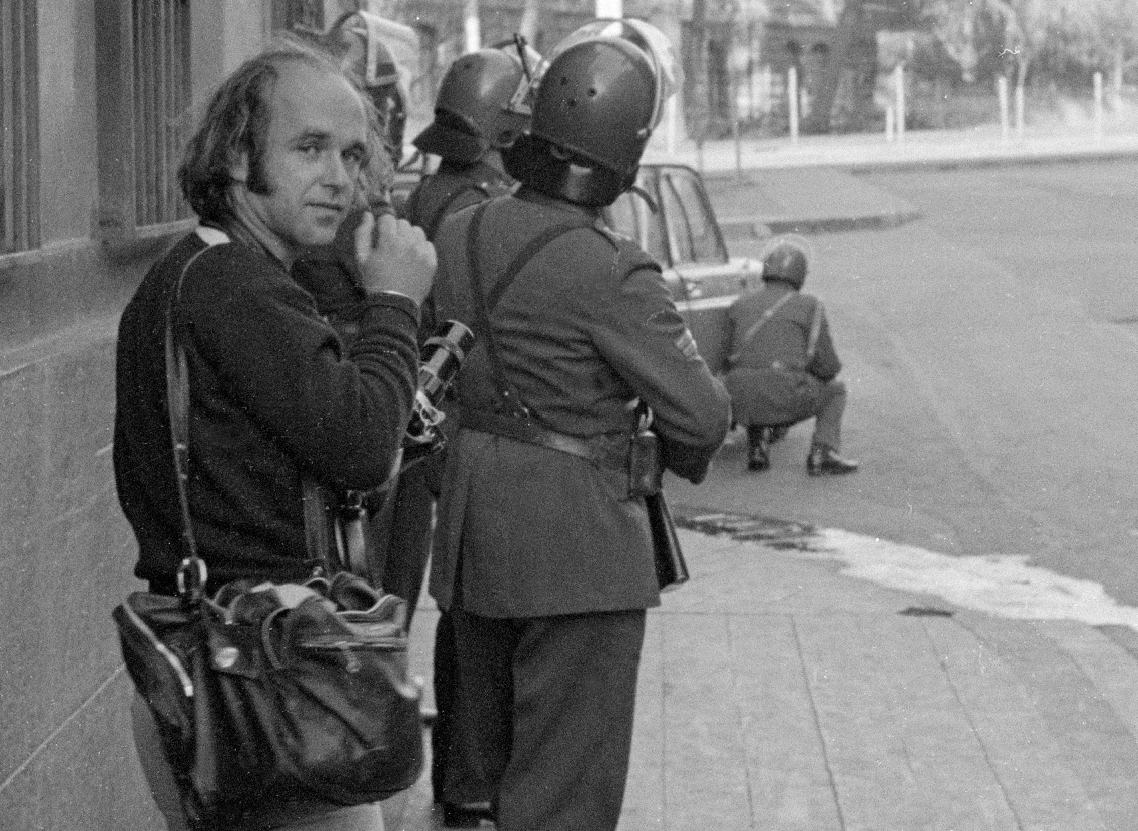 Sylvain Julienne during the coup d’état in Chile, September 1973